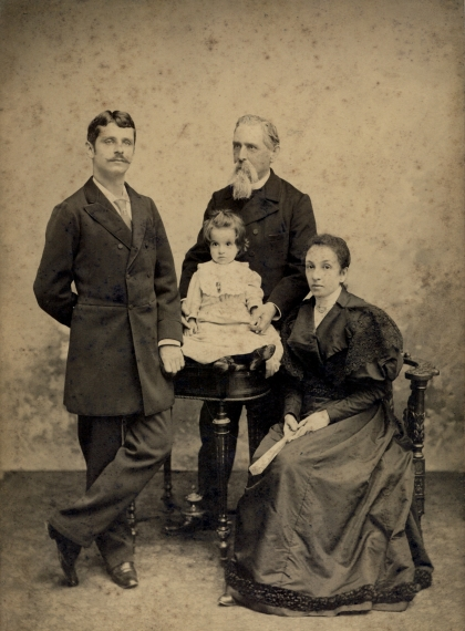 Family portrait of the Canto e Castros, c. 1893. Pictured (left to right) are: João do Canto e Castro Silva Antunes (1862-1934), Maria da Conceição do Canto e Castro (1892-?), José Ricardo da Costa e Silva Antunes (1831-1906), Mariana de Santo António Moreira Freire Correia Manuel Torres de Aboim do Canto e Castro (1865-1946).